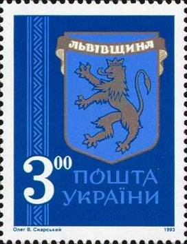 Stamp of Ukraine